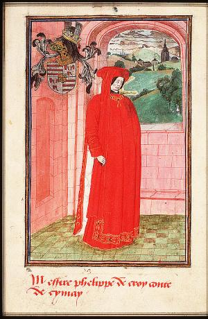 Statuts, Ordonnances et Armorial de l'Ordre de la Toison d'Or (Statutes, Ordonnances and armorial of the Order of the Golden Fleece) Place of origin, date: Southern Netherlands; 1473. Added sections: Southern Netherlands; 1478 or shortly after and 1491 or shortly after Material: Vellum, ff. 86, 249x187 (167x106) mm, 23 lines, littera cursiva (lettre bourguignonne). French. Binding: 18th-century brown leather Decoration: 1 full-page miniature (170x115 mm) with border decoration; 92 miniatures (185/155x120/100 mm); 1 historiated initial (80x90 mm) with border decoration; decorated initials with border decoration (ff., Added section: miniatures ; 4 drawings for miniatures (not finished) Provenance: Presented in 1473 by Gilles Gobet, King of Arms of the Order of the Golden Fleece, to Charles the Bold, Duke of Burgundy and the other Knights during the Chapter of the Order held at Valenciennes; Treasure of the Golden Fleece, Brussls; taken away by the Treasurer C.-F. Humyn (d. 1735) or his daughter C.Ch. de Corte; by legacy to her daughter M.-L. de Corte, wife of Ph.-E. de Poederlé; purchased in 1781 at the Poederlé sale by G.-J- Gérard of Brussels; acquired in 1832 as part of the Gérard collection (no. A 27)